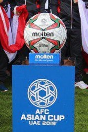 Molten Acentec